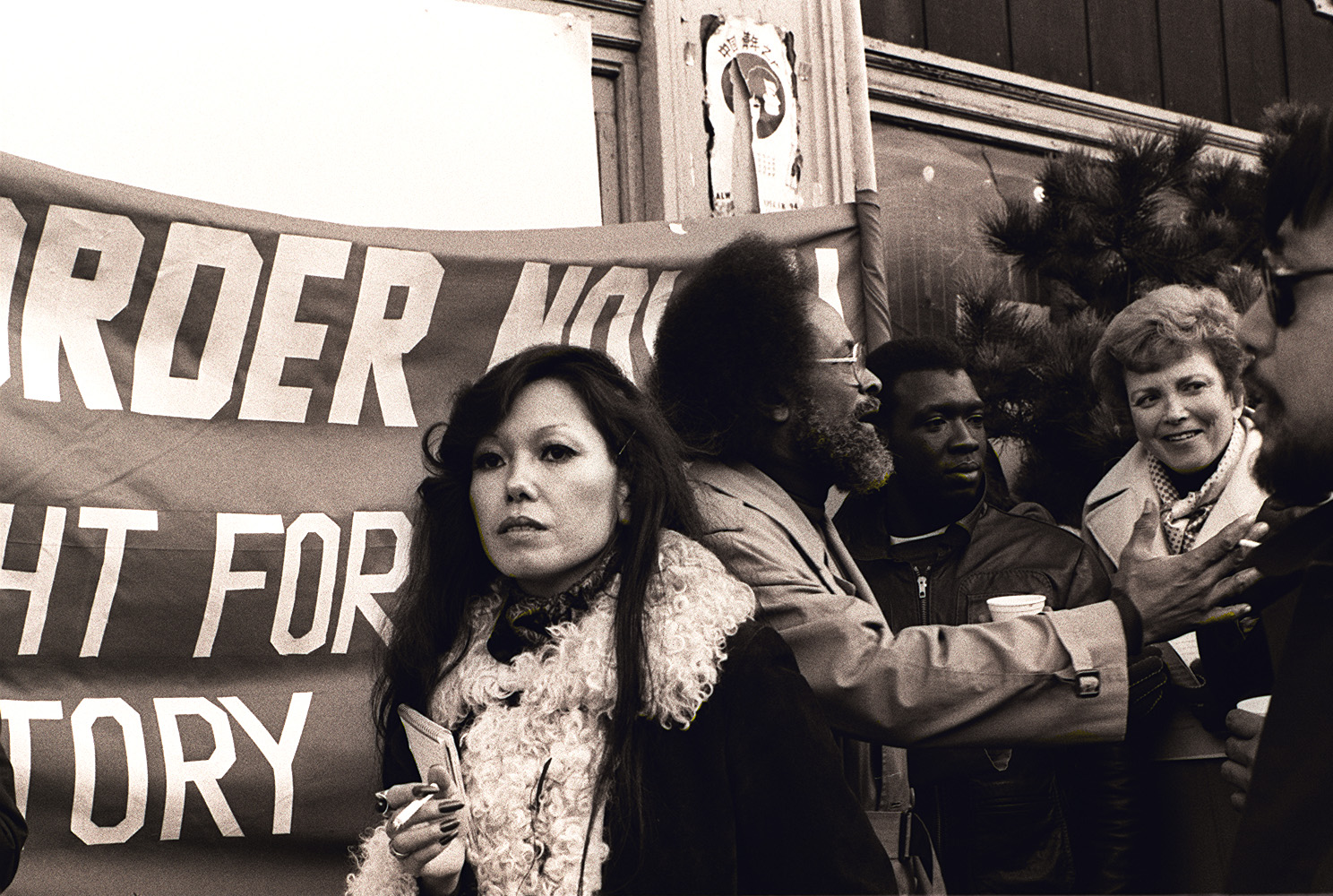 American Sansei poet and activist Janice Mirikitani and Reverend Cecil Williams at a protest in front of the International Hotel, 848 Kearny Street in San Francisco, California in 1977.San Francisco Board of Supervisor member Dorothy von Beroldingen is at right. Photo by Nancy Wong